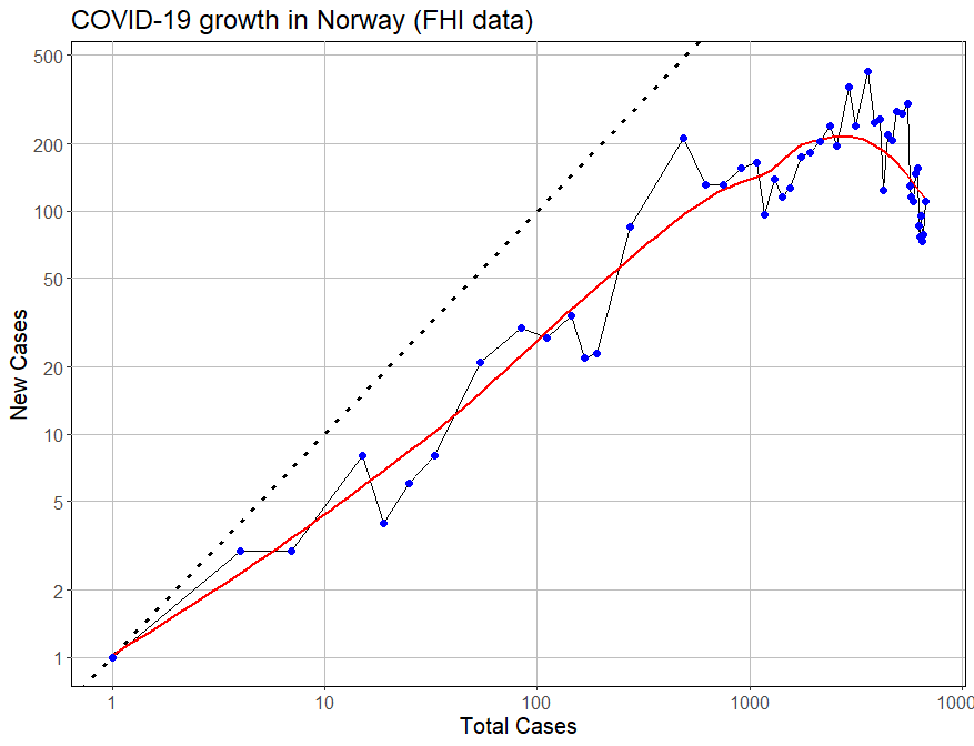 ERplot19